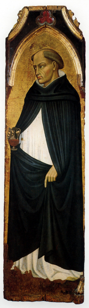 Benedetto di Bindo. St Dominic. c. 1415, Fondazione Monte dei Paschi, Siena